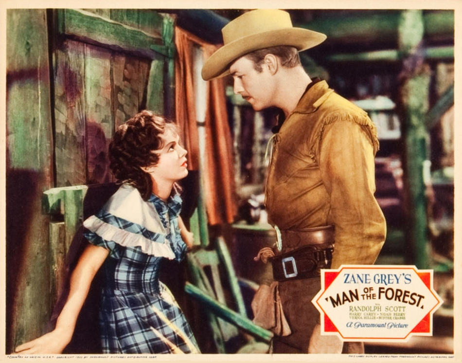 Man of the Forest (1933), directed by Henry Hathaway, with Randolph Scott and Verna Hillie.